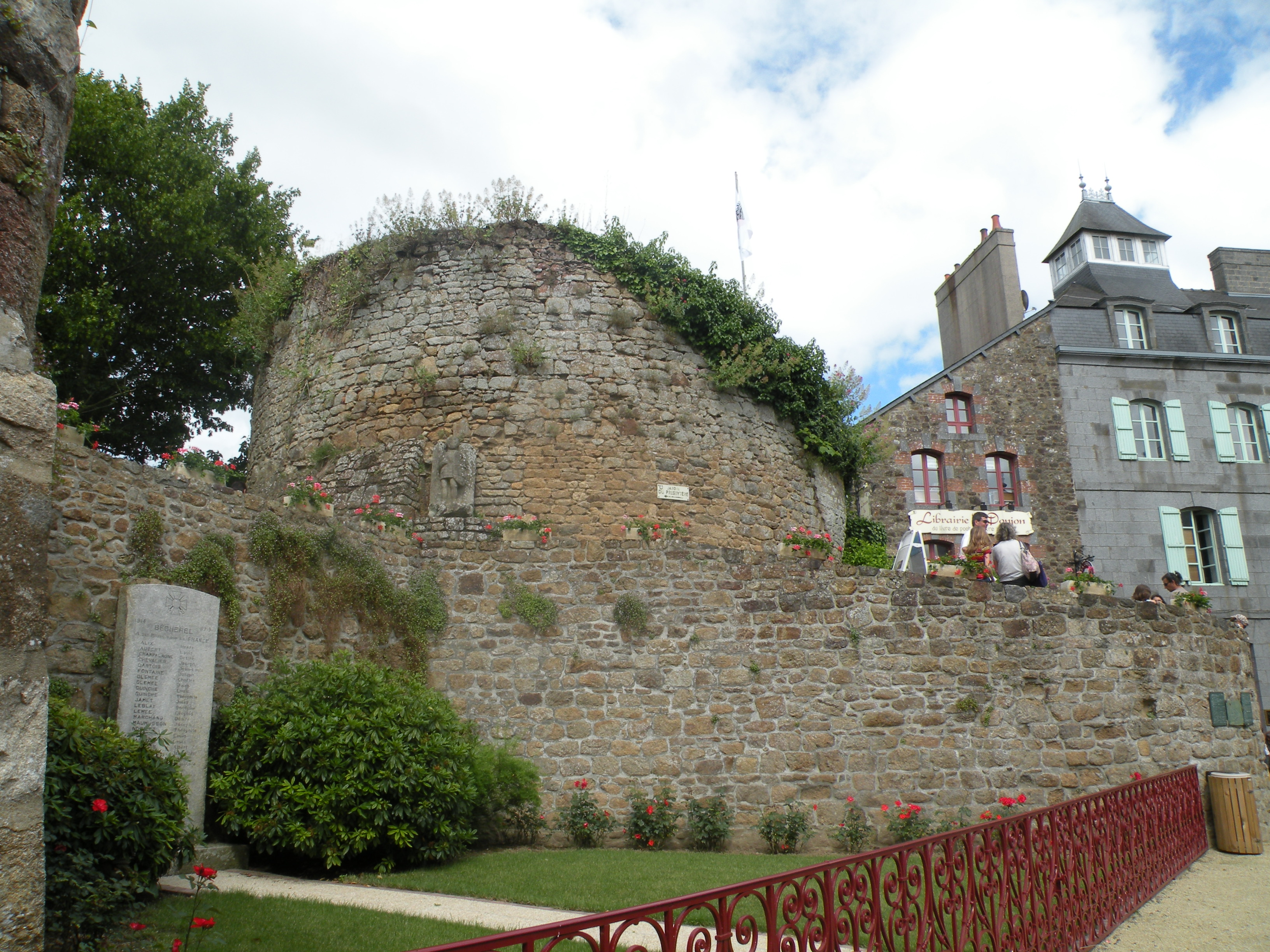 The old keep of Bécherel .